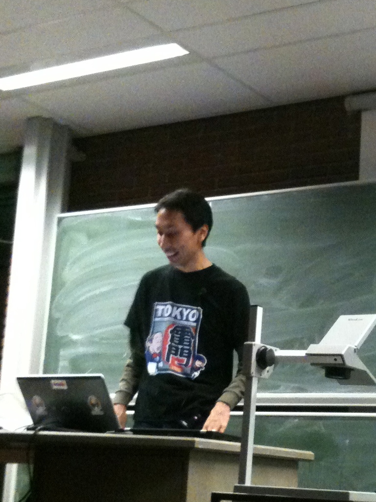 Jenkins Developer Meetup and Birthday Toast by Kohsuke Kawaguchi, Testing and Automation devroom, FOSDEM 2013.